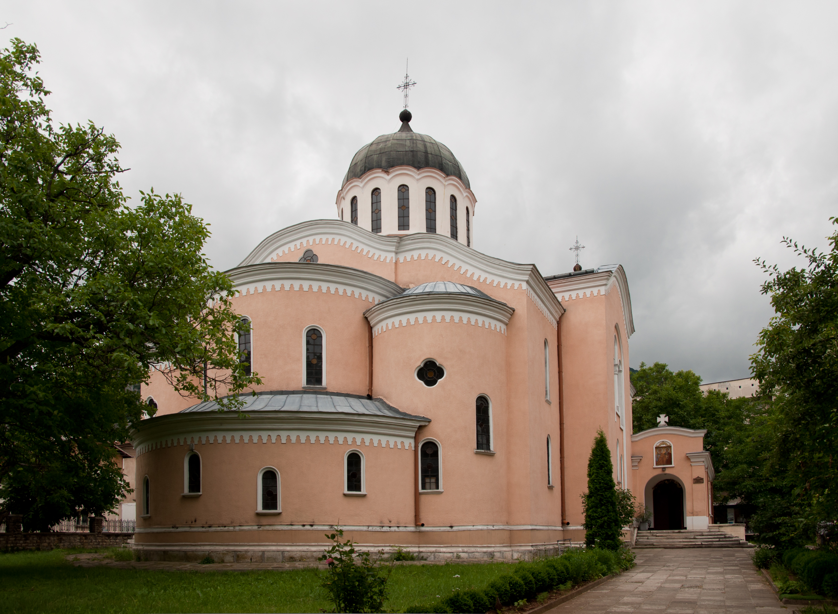 Saints Apostles Cathedral in Vratsa, Bulgaria.